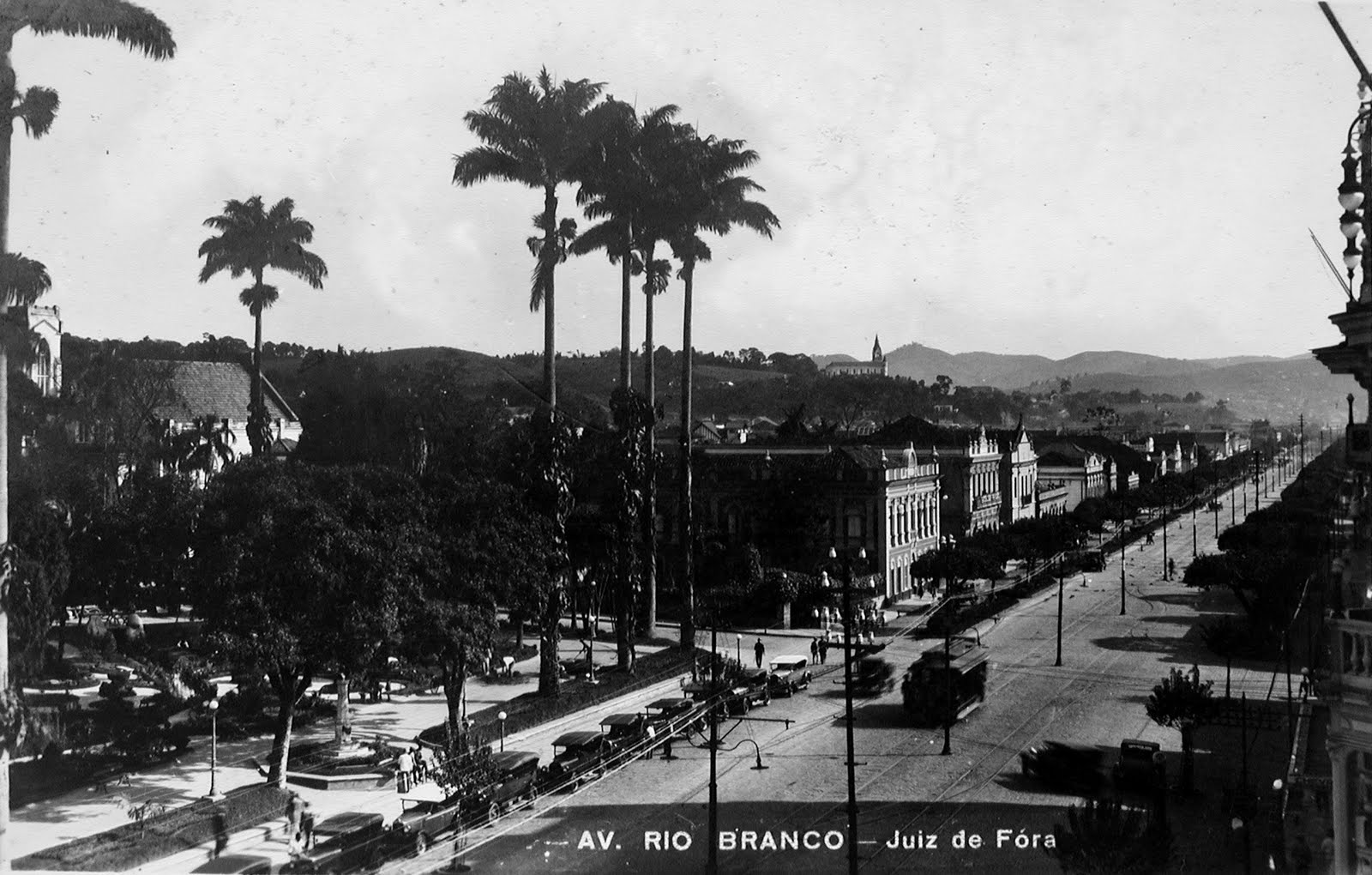 Avenida Rio Branco, Juiz de Fora, Brazil.